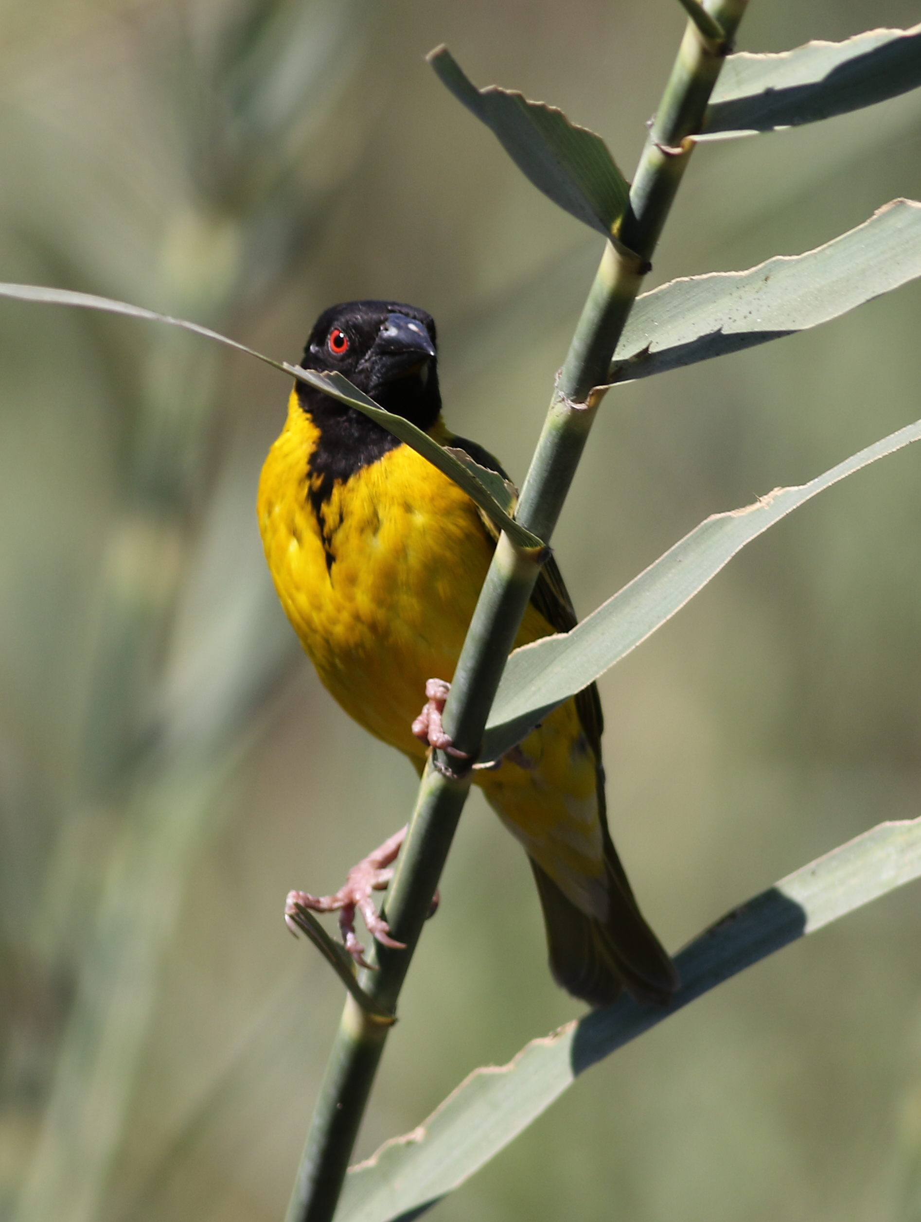 Village weaver, Ploceus cucullatus, at Lake Chivero, Harare Zimbabwe